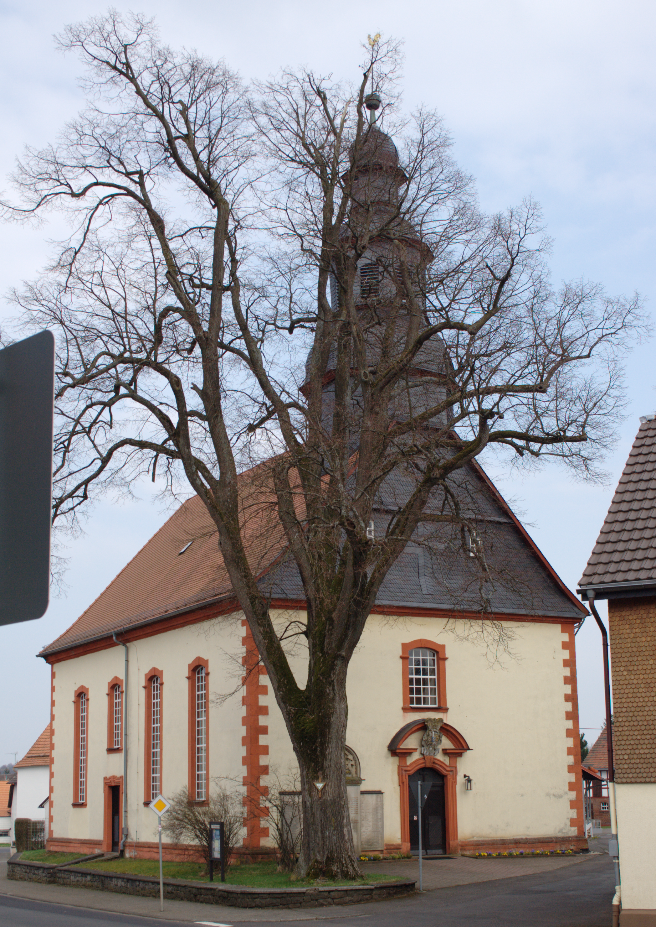 Protestant church in Ilbeshausen-Hochwaldhausen, Grebenhain, Hesse, Germany